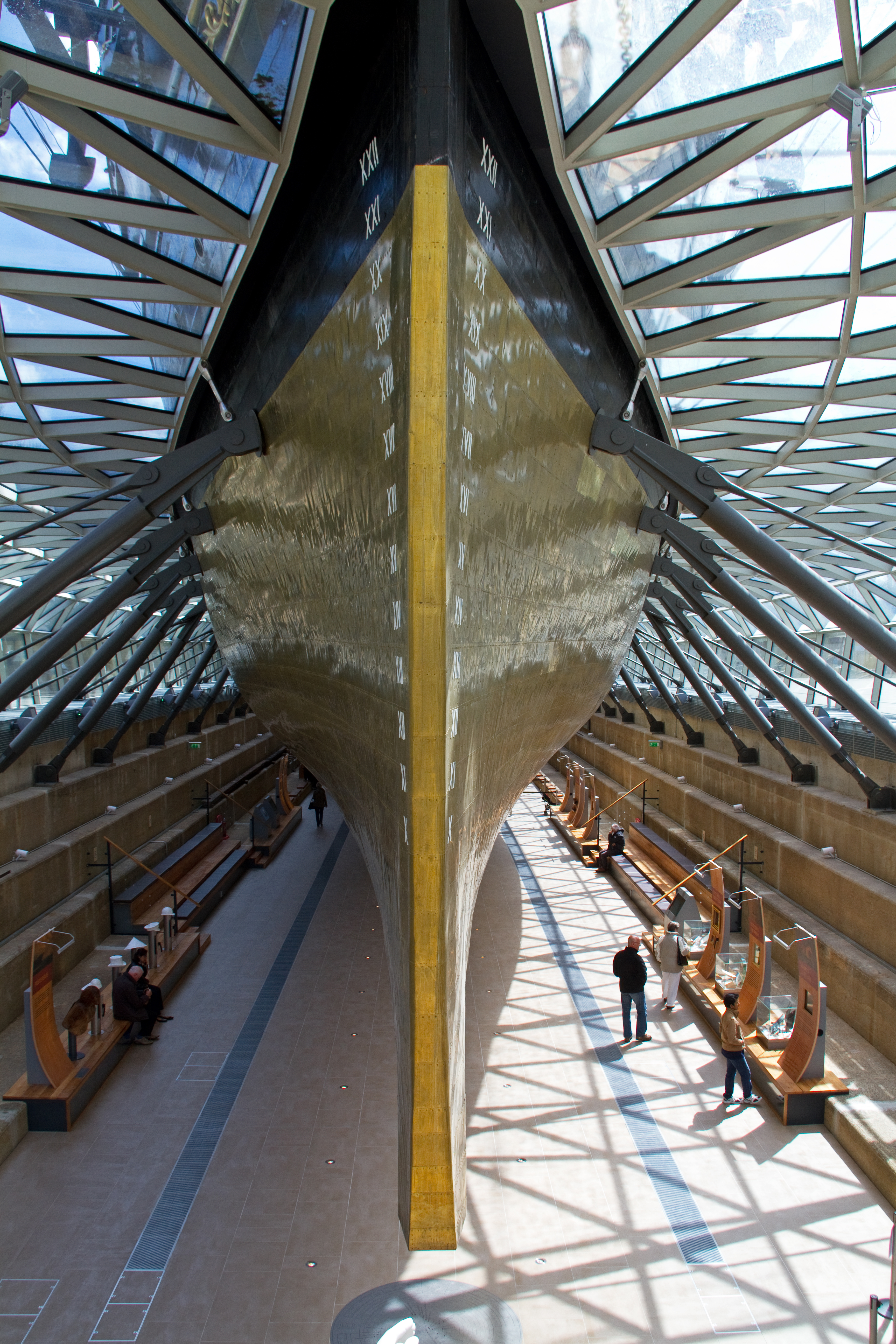 Cutty Sark 2